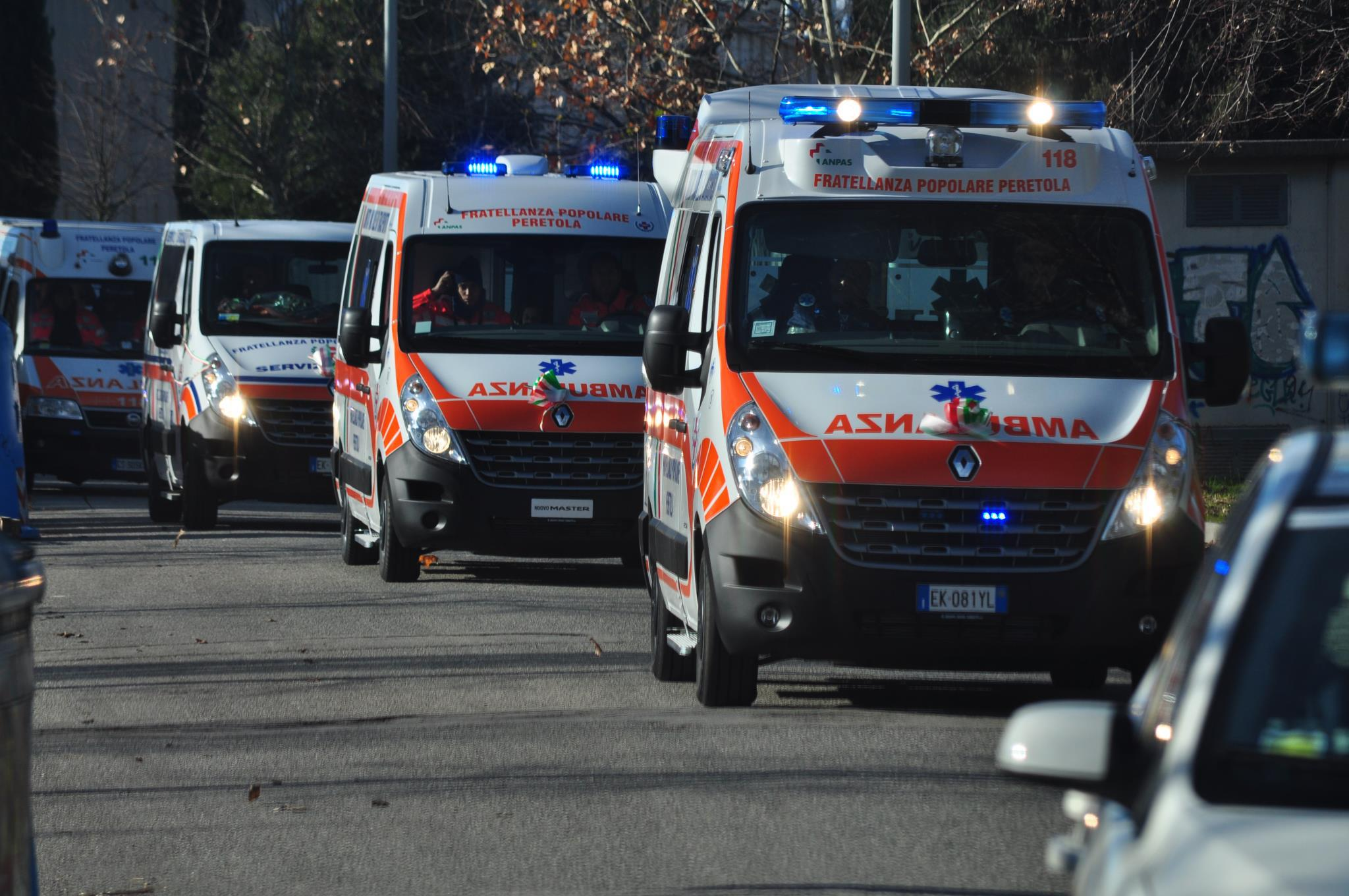 fpp ambulanze